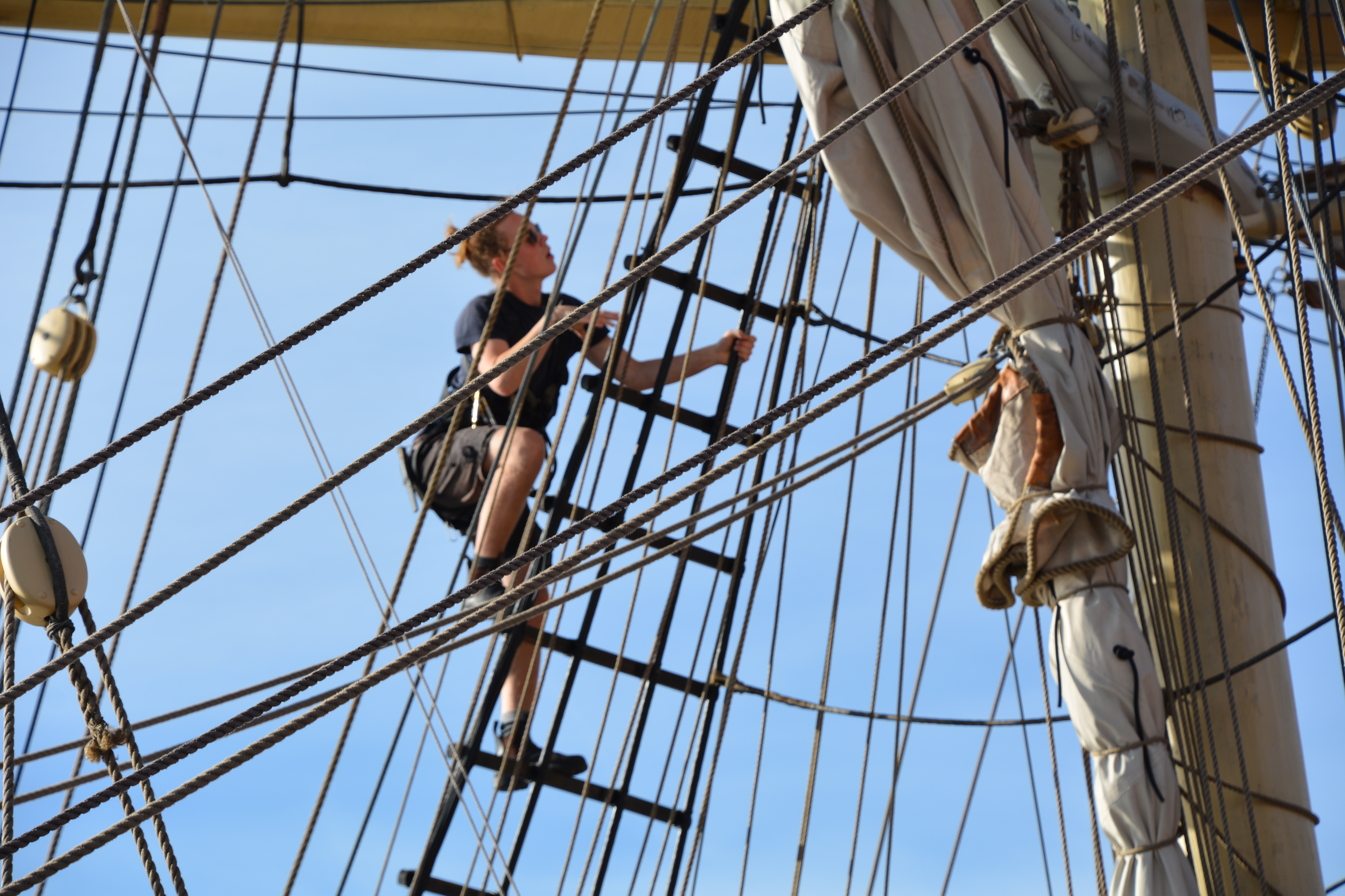 Klättring i riggen